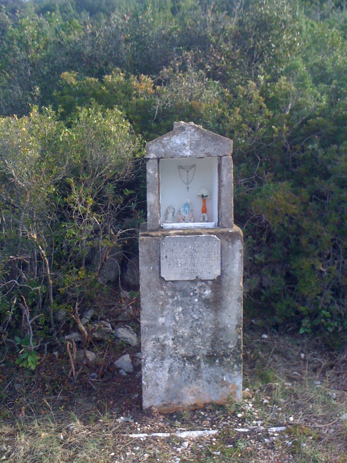 St. Theresa of baby Jesus chapel, Zamaslina